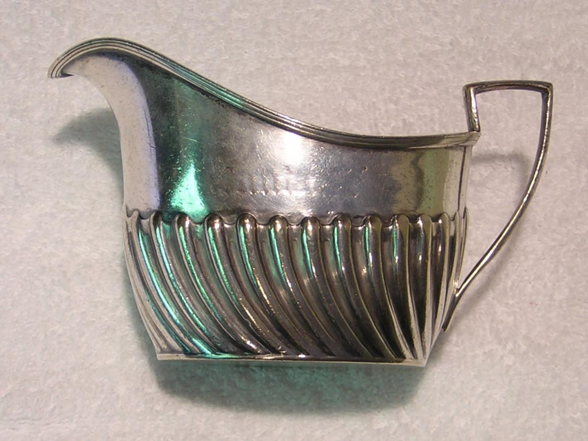 ATSF holloware unlidded creamer possibly made by Harrison & Howson in the 1910s, possibly later, or possibly a reproduction (has Harrison & Howson, Sheffield England stamped on the bottom). Used in Dining car service.